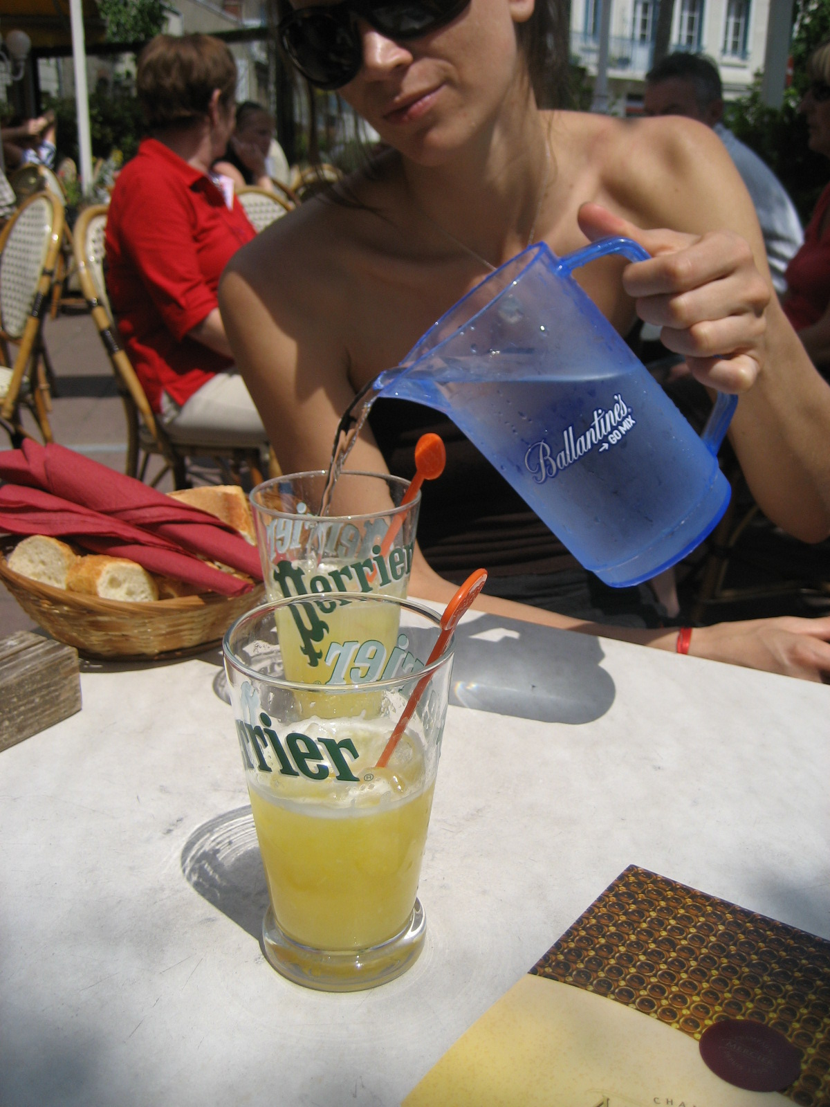 The French soft drink citron pressé, being diluted down with water. Photo taken on Avenue de Champagne, Épernay.